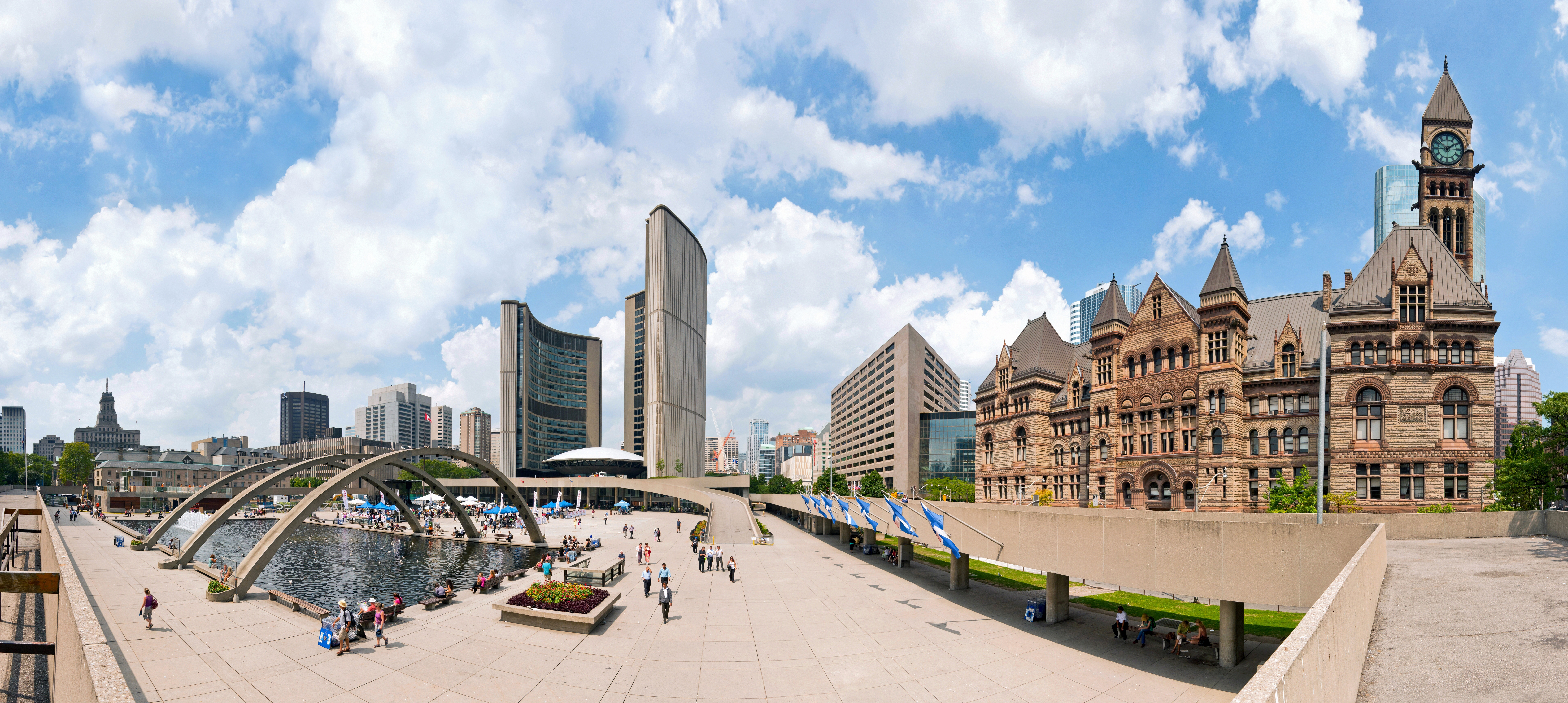 Panoramic view of Nathan Phillips Square in Toronto, Canada.